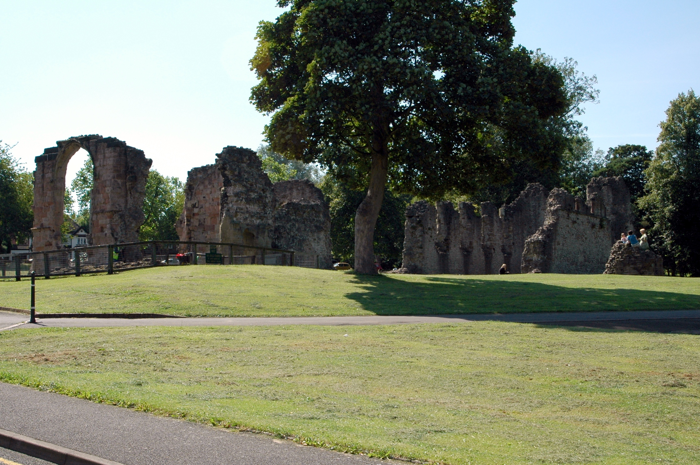 This is the ruins of Dudley Priory in Dudley, West Midlands.